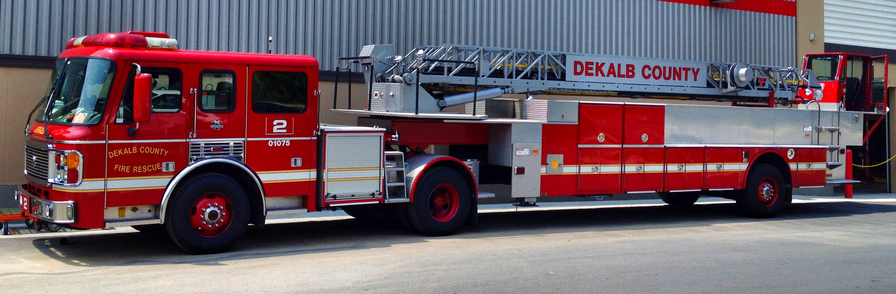 DeKalb County (Georgia) Fire Truck, Brookhaven, April 2012